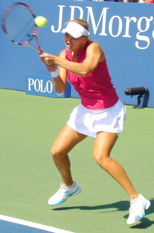 Third round doubles match at the 2009 US Open with Maria Kirilenko